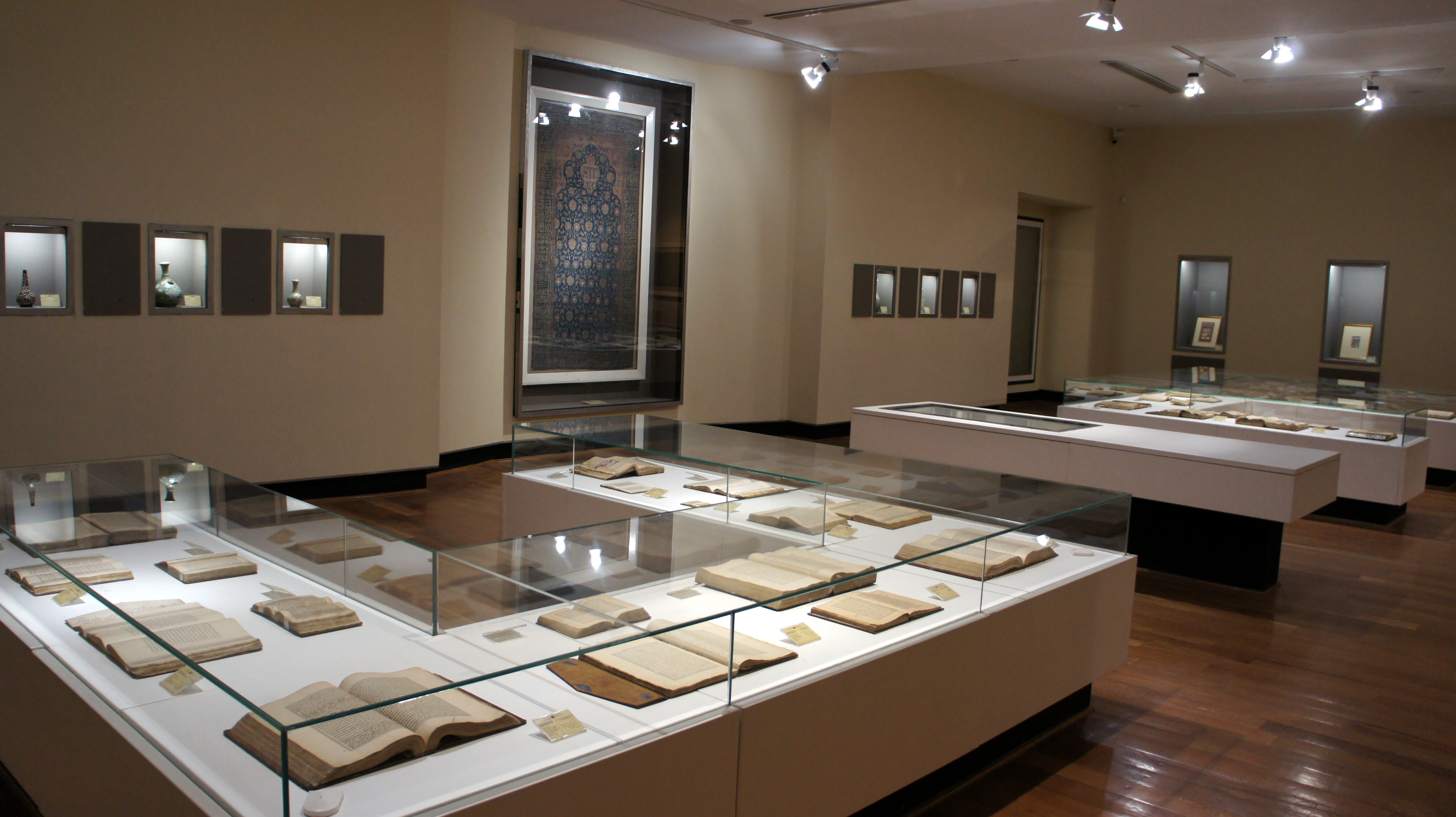 Persian manuscripts at the National Museum - Tehran. Photo: Alireza Fard Asadi / Persian Dutch Network